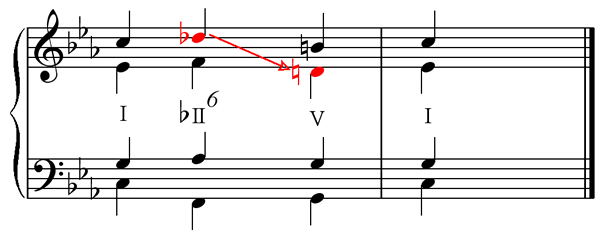 Example of 'false relation' in neapolitan chord progression